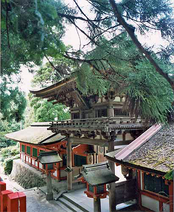 This photograph shows a gate at Isonokami Jingu, a Shinto shrine (jinja) in the city of Tenri, Nara Prefecture, Japan. I took the photograph.